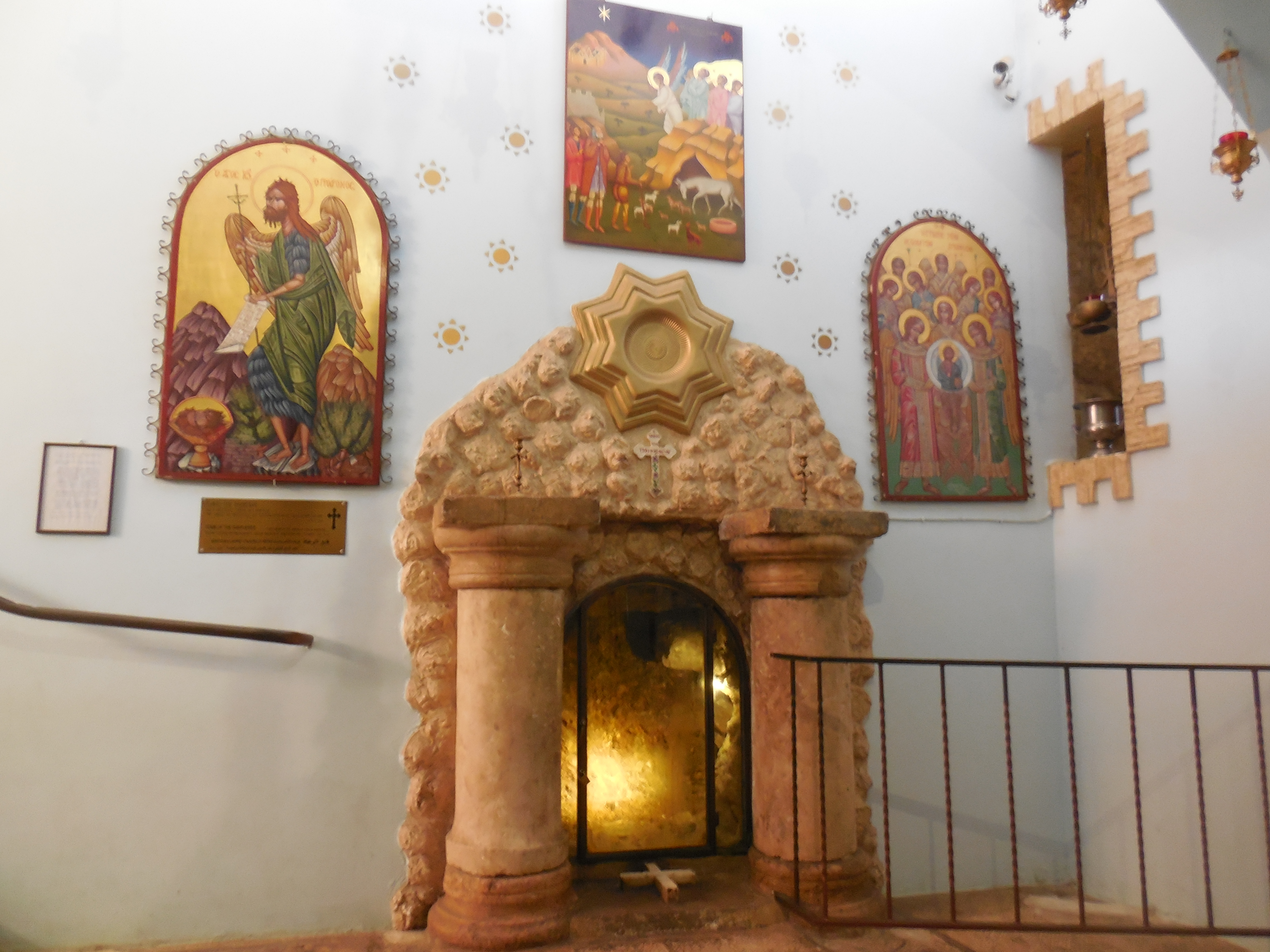 The place of the burial of the Shepherds. Crypt in the monastery. Beit Sahour. Palestina